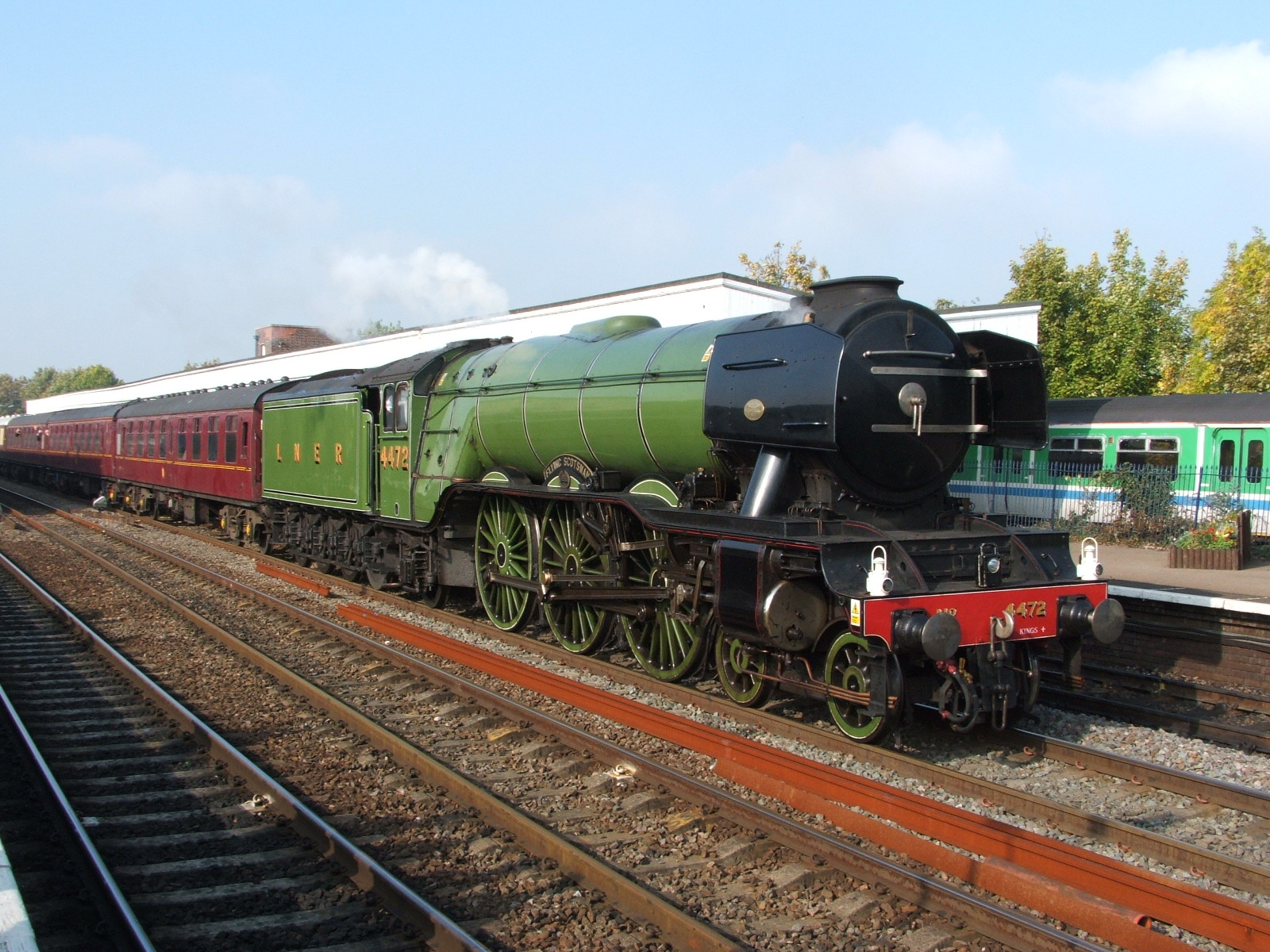 LNER 4472 "Flying Scotsman" at Leamington Spa, Warwickshire, UK. October 2005 - Photo Michael J. Irlam